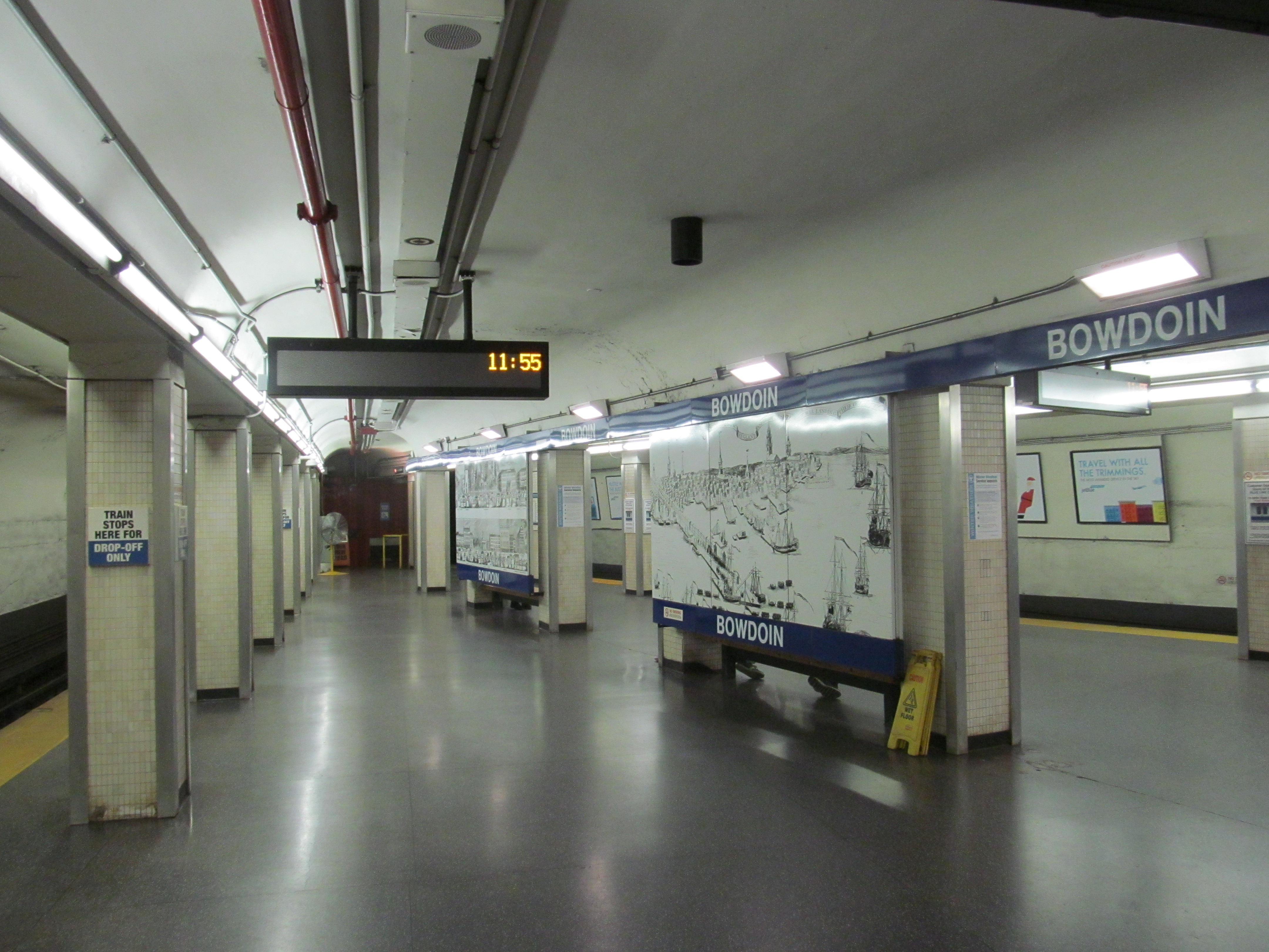 Wedge-shaped platform at Bowdoin station in November 2015